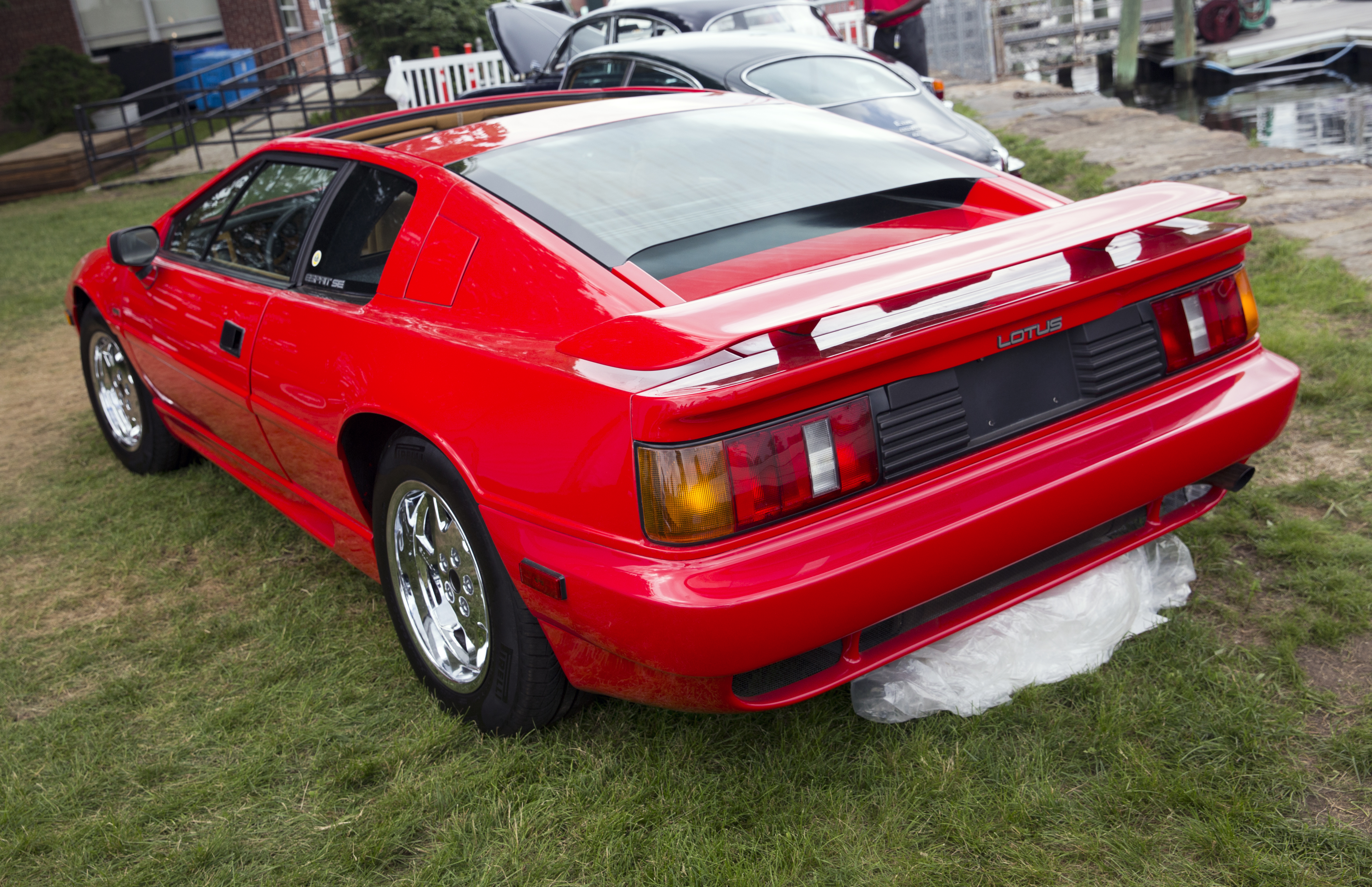 Rear view of a 1991 Lotus Esprit Turbo SE, sold for a mere $16,800 at the Bonhams auction attached to the 2018 Greenwich Concours d'Elegance. Without those chromed wheels it would've probably made $25K... First year for anti-lock brakes and driver's airbag, and one of only 22 Turbo SEs built in 1991 (according to Bonhams). Actual date of manufacture was September 1990.